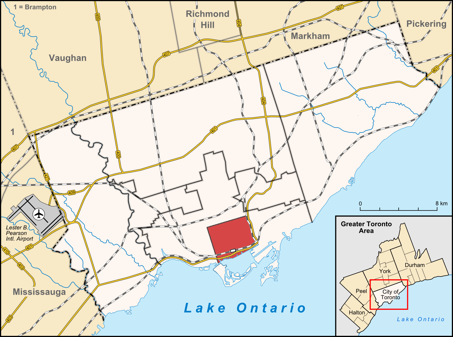 map of Downtown Toronto